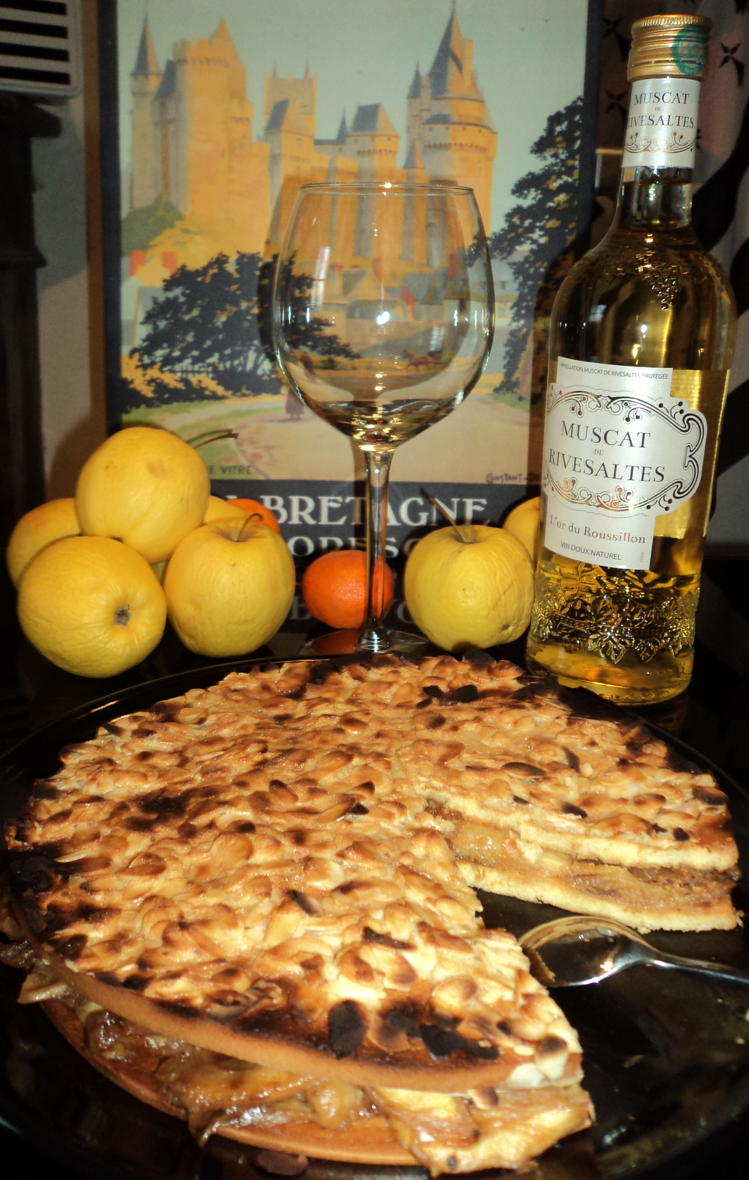 Description The "Vitréais" [ˈvitɹeɪɛ/] is a specialty of Vitré, city in the East of Brittany. It is a cake with apples with Salted Butter Caramel and almonds.